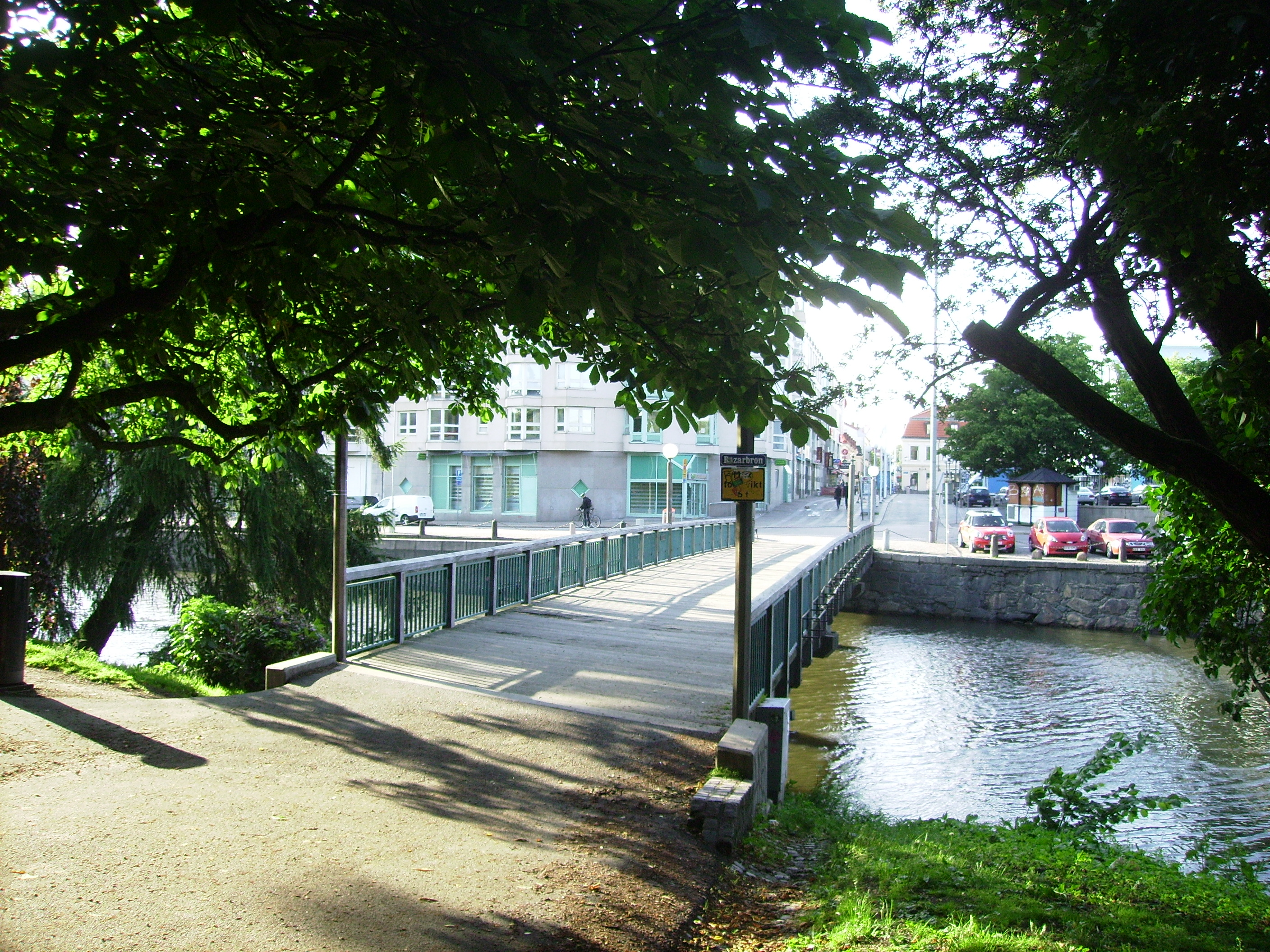 Picture of Basarbron, a brigde, in Gothenburg.